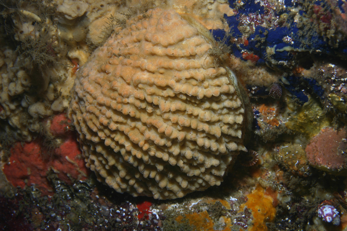 The giant Pacific rock scallop Crassedoma giganteum lives with one valve attached to the rock and the other free to open and close. A sponge covers the shell entirely.